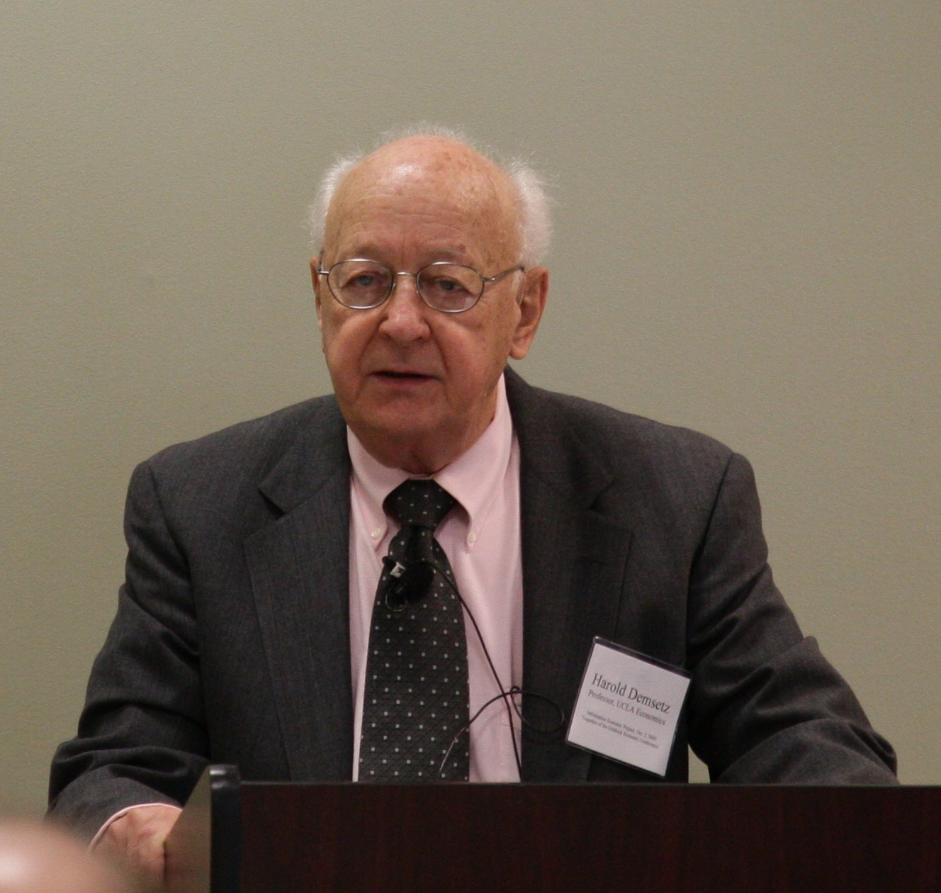 Economist Harold Demsetz, giving the keynote speech at the Gridlock Economy conference, held at George Mason University.